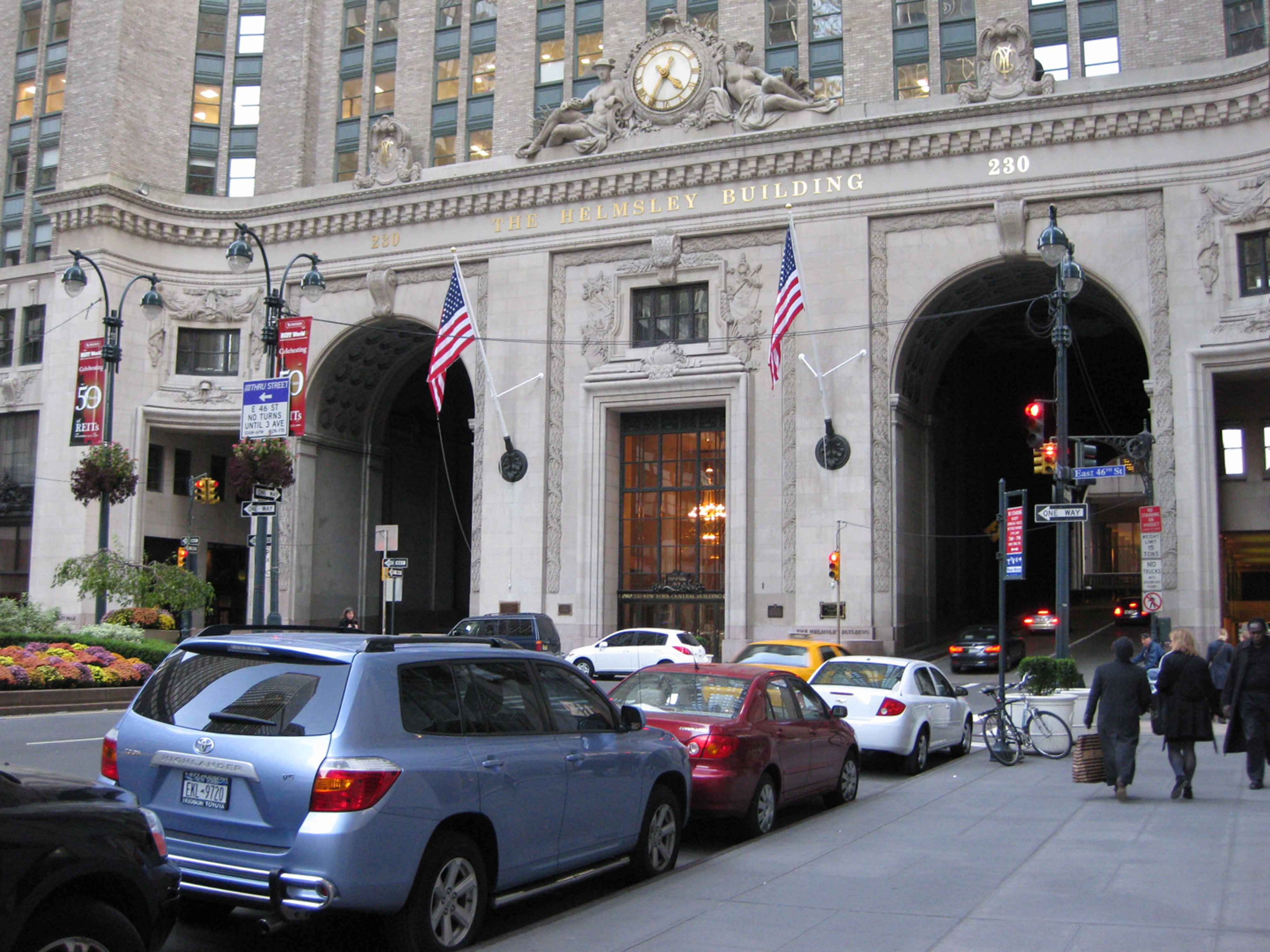 Park Avenue comes out of The Helmsley Building